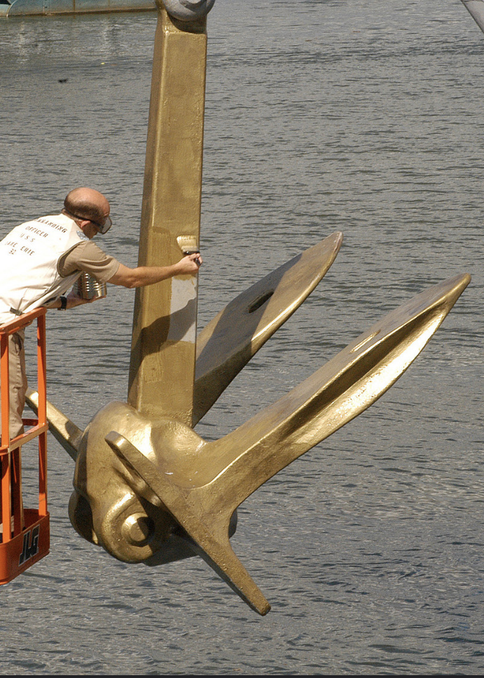 Photograph